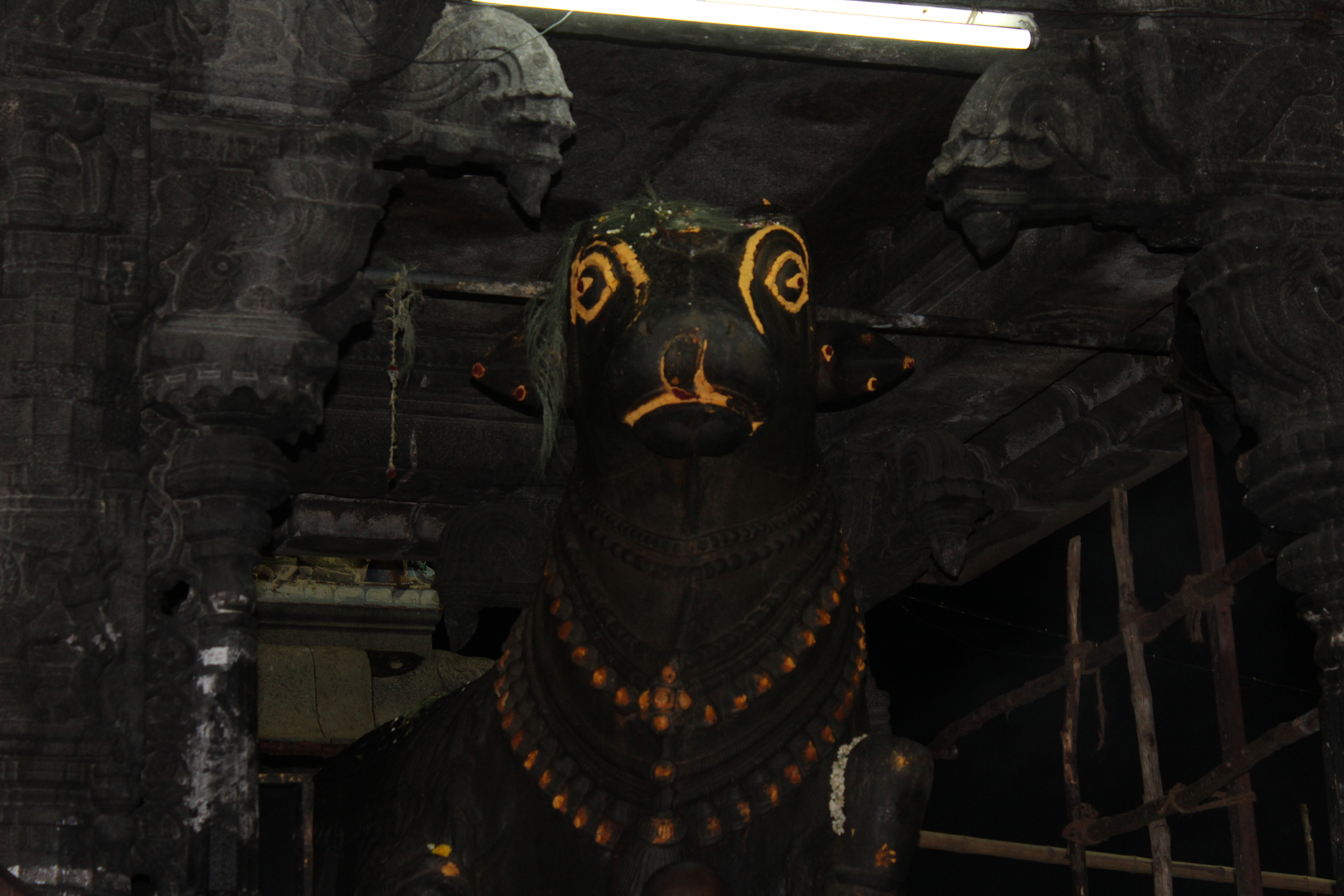 Nandhi statue in Thiruvannamalai Annamalaiyar Temple